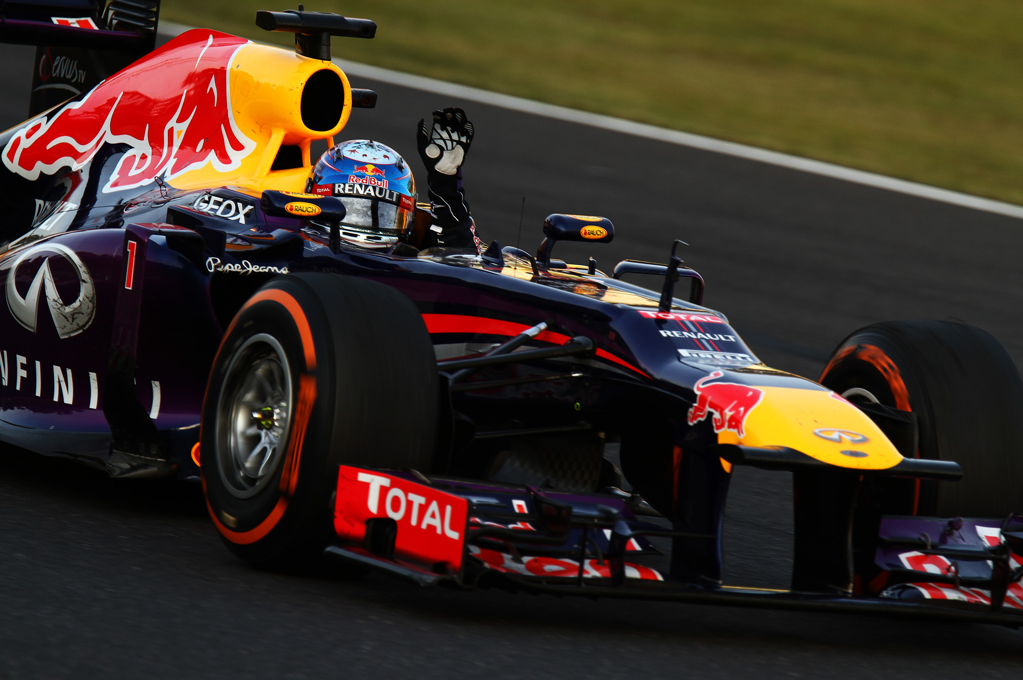 2013.10.13 F1 Rd.15 Suzuka Final, Infiniti Red Bull Racing (RB9) #1 Sebastian Vettel [IMG_2844ks]